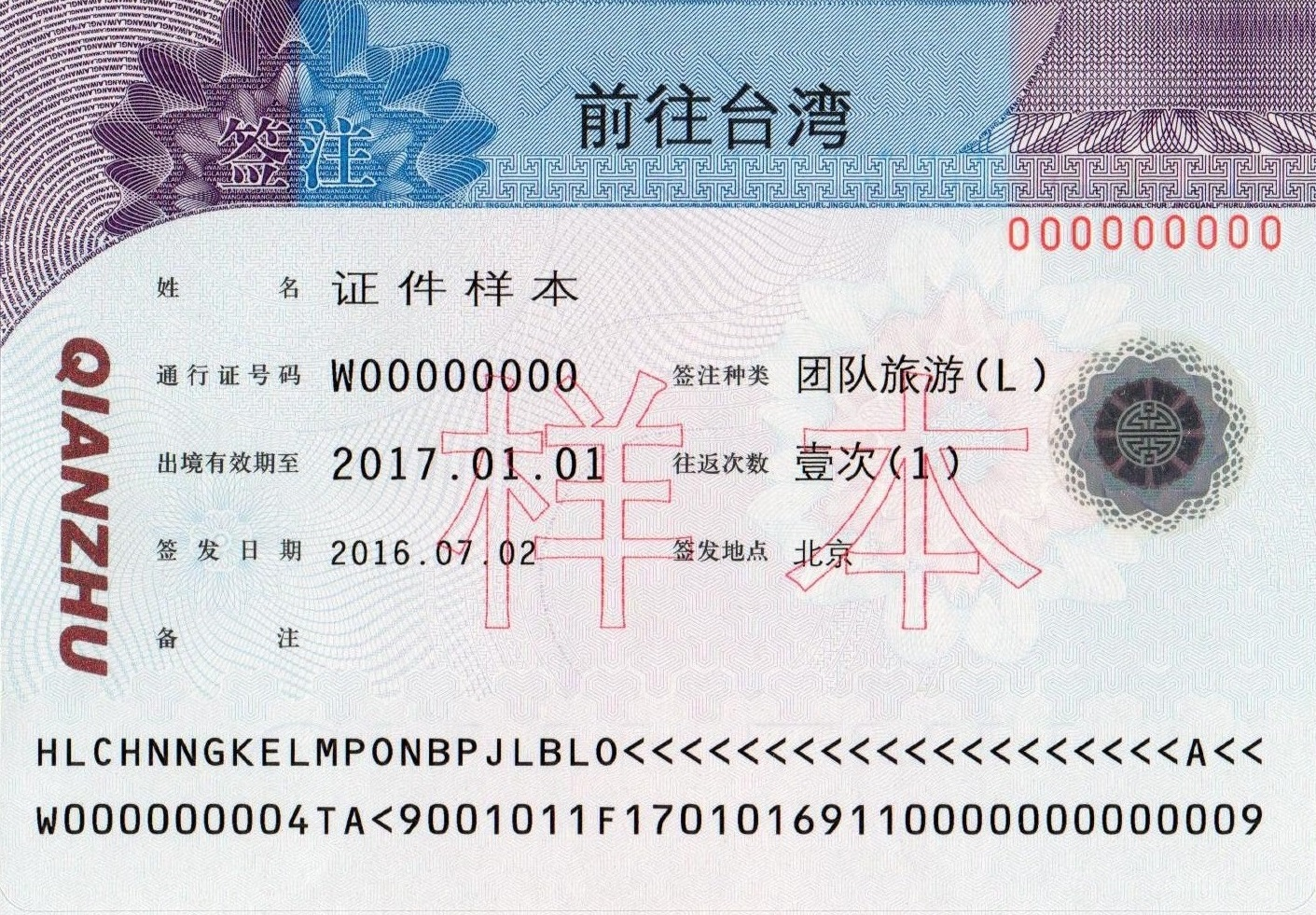 A sample of sticker-style endorsement of Taiwan Travel Permit, issued in 2016.